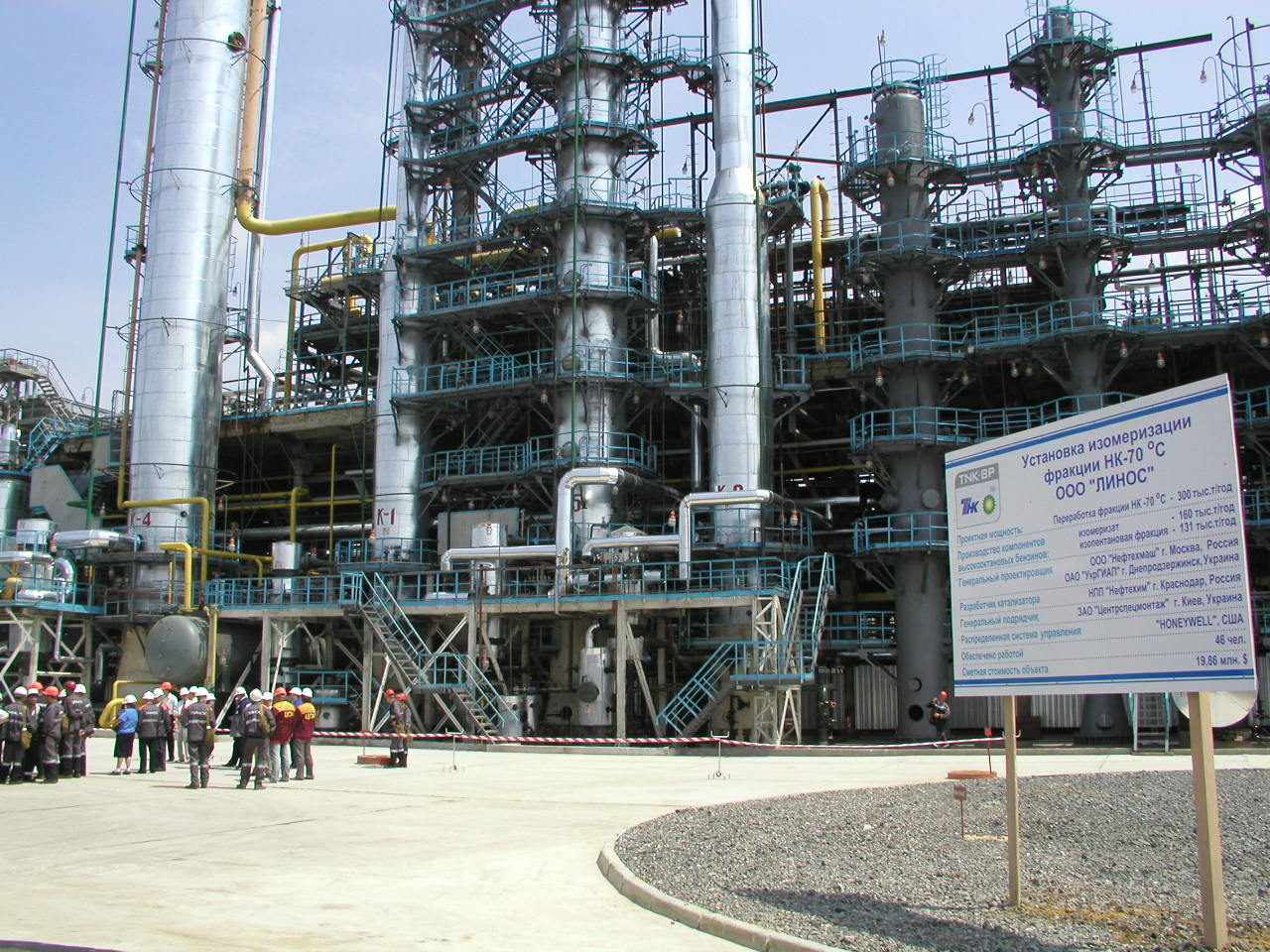 Lysychanskiy Refinery TNK-BP